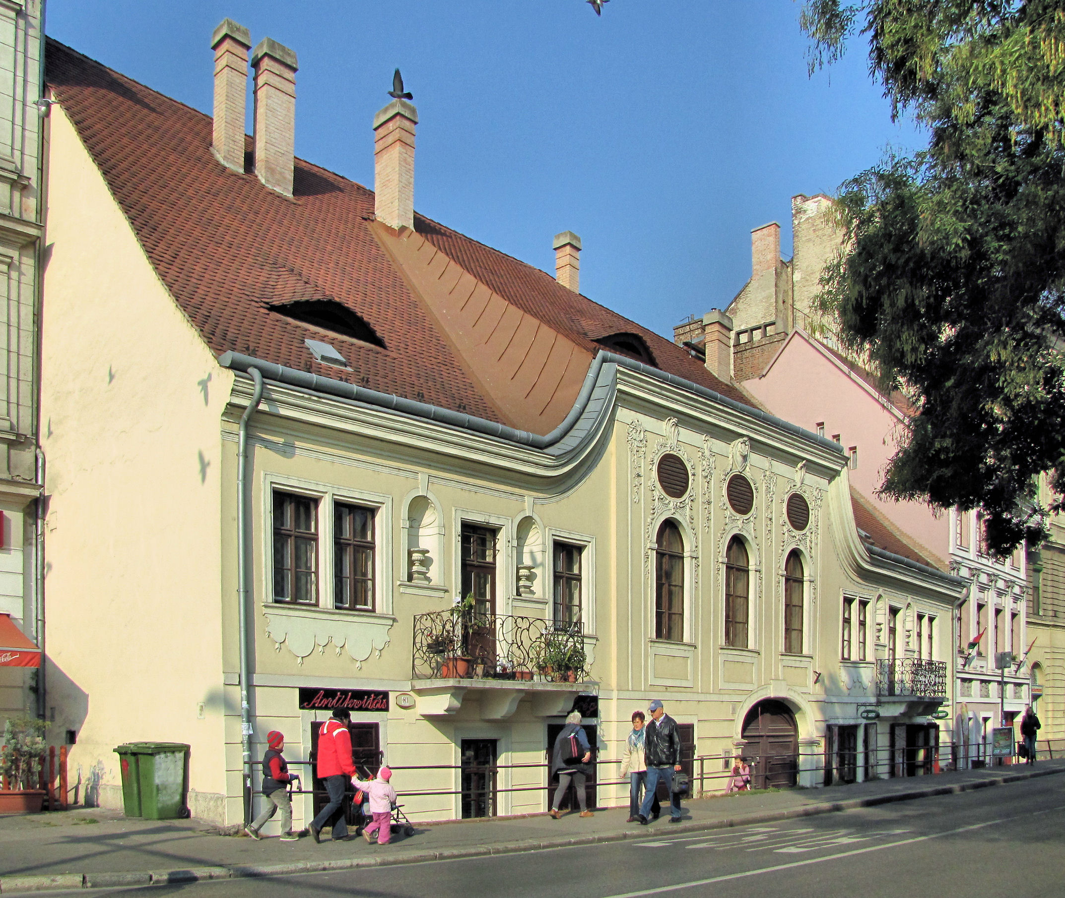 The late Baroque building of the former White Cross Inn on Batthyány Square, Budapest.